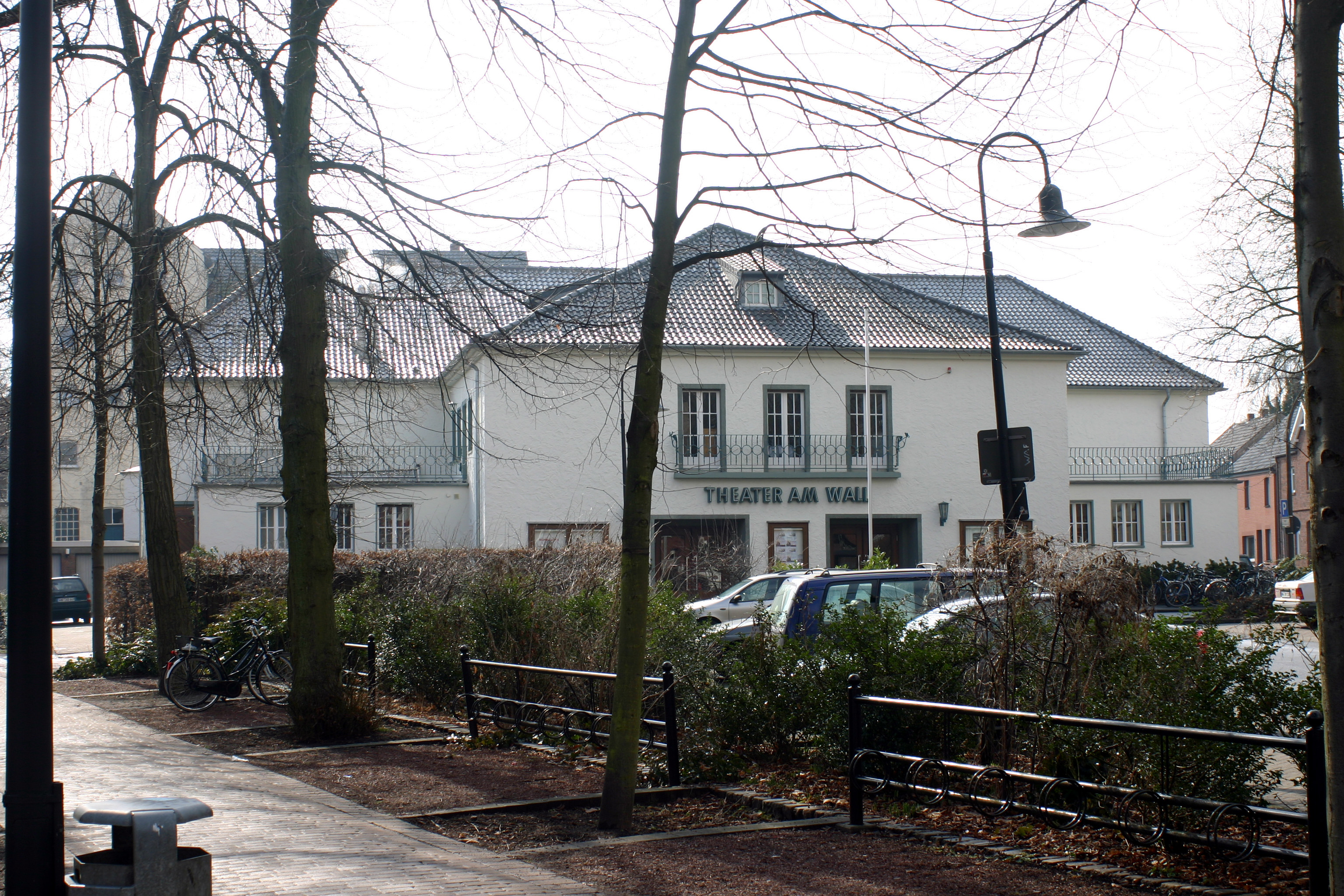 Warendorf, Theater am Wall